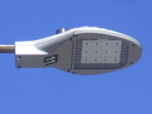 History of street lighting